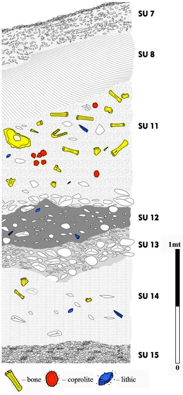 SU 7: This layer, about 20 cm thick, is the modern upper walking surface, composed of mixed material but mainly soil and gravel, with which the quarry is paved. - SU 8: Is the 40-to-80 cm thick travertine ceiling of the cave, hidden below the modern surface. Part of it has been removed for safety reasons during the excavation. - SU 11: This consists of a 45-to-100 cm thick highly consolidated red-brown clay soil with rare reworked volcanic products from the neighbouring Vulcano Laziale (see SU13). It also incorporated small calcareous conglomerates and clasts which are ruins of the cave. This stratigraphic unit contained abundant large mammal and small vertebrate remains, coprolites and rare lithic industries. - SU 12: Is a very compact 20-to-40 cm thick layer of reddish brown clay, containing a large number of clasts that separates the level from the above SU11 and a greater number of volcanic products. Abundant small vertebrates and few lithic industries were present, while large faunal remains and coprolites were absent. - SU 13: A homogeneous greyish green layer of high-ly consolidated volcanic tephra and pyroclastic products. This sterile layer attests to the eruptive phase of the Vulcano Laziale complex dating at 70±2 ka. - SU 14: Consists of a 50-to-100 cm thick very solid reddish paleosol. The presence of light patina of manganese is widespread, perhaps being evidence of a recurrent presence of water. Extremely rare lith-ic and bone remains were also found. - SU 15: This bottom layer is made of calcareous en-crustation and travertine with a strong presence of manganese patinas. It represents the natural floor of the cave.